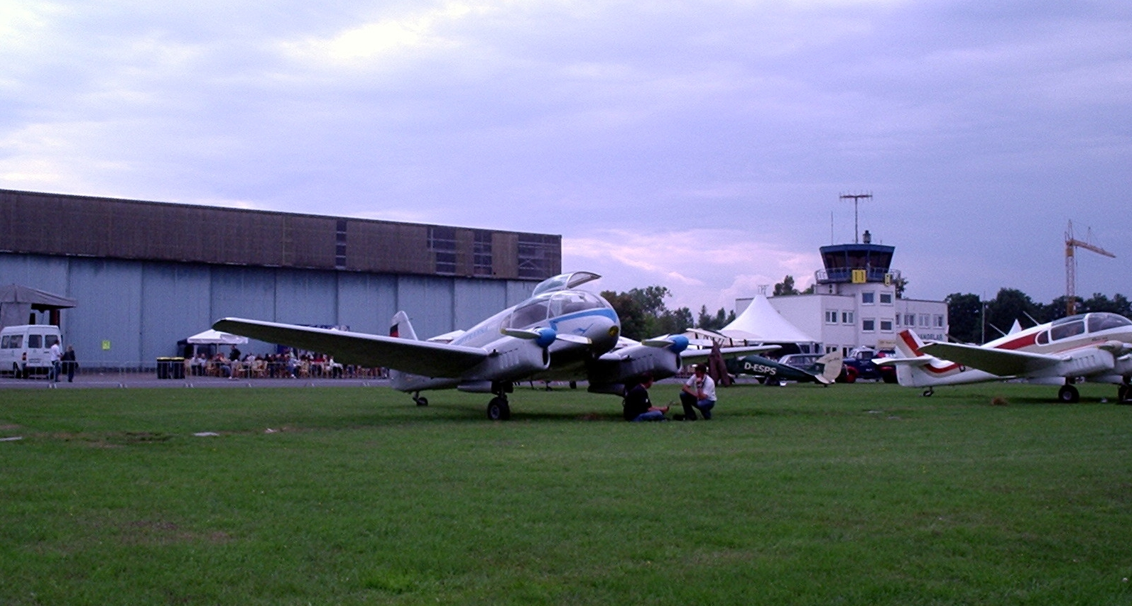 Aero Ae-145 at an Airshow in Hangelar